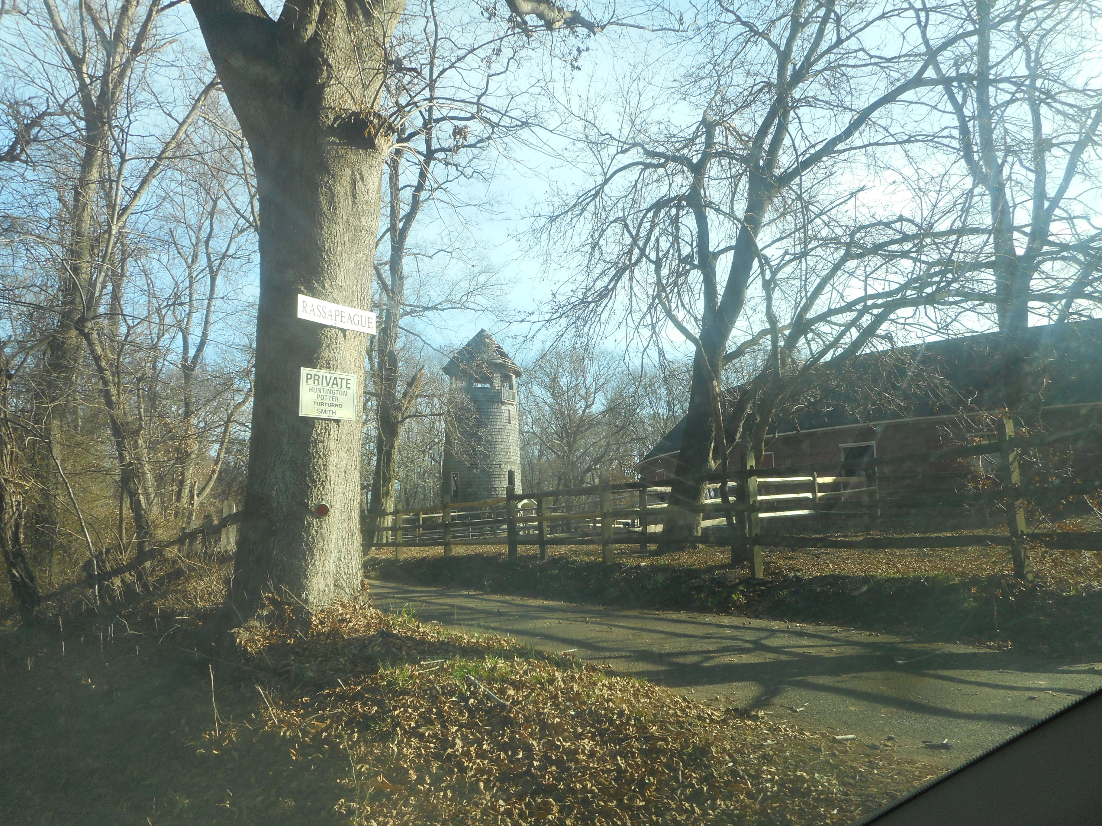 The driveway leading to the former site of Rassapeague, also known as the Francis C. Huntington and Susan Butler Huntington Estate, a historic house off of Long Beach Road in Nissequogue, New York. The 1865-built estate was added to the National Register of Historic Places in 1993, and was burned in a fire in 2011. The closest possibility of easy access to that site is this driveway, which is next door to The Knox School (formerly the "Land of Clover, a.k.a.; Latham Brown Estate).